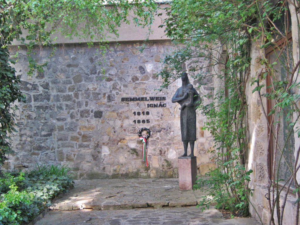 Tomb of Ignác Semmelweis in the courtyard of his birthplace, now the Semmelweis Museum of Medical History. This is the fifth burial place of the famous doctor, established in 1965 when his remains were buried in the stone wall of the courtyard. Motherhood, a bronze sculpture by Miklós Borsos was unveiled on 13 August 1965. - 1-3. Apród utca, District I., Budapest, Hungary.